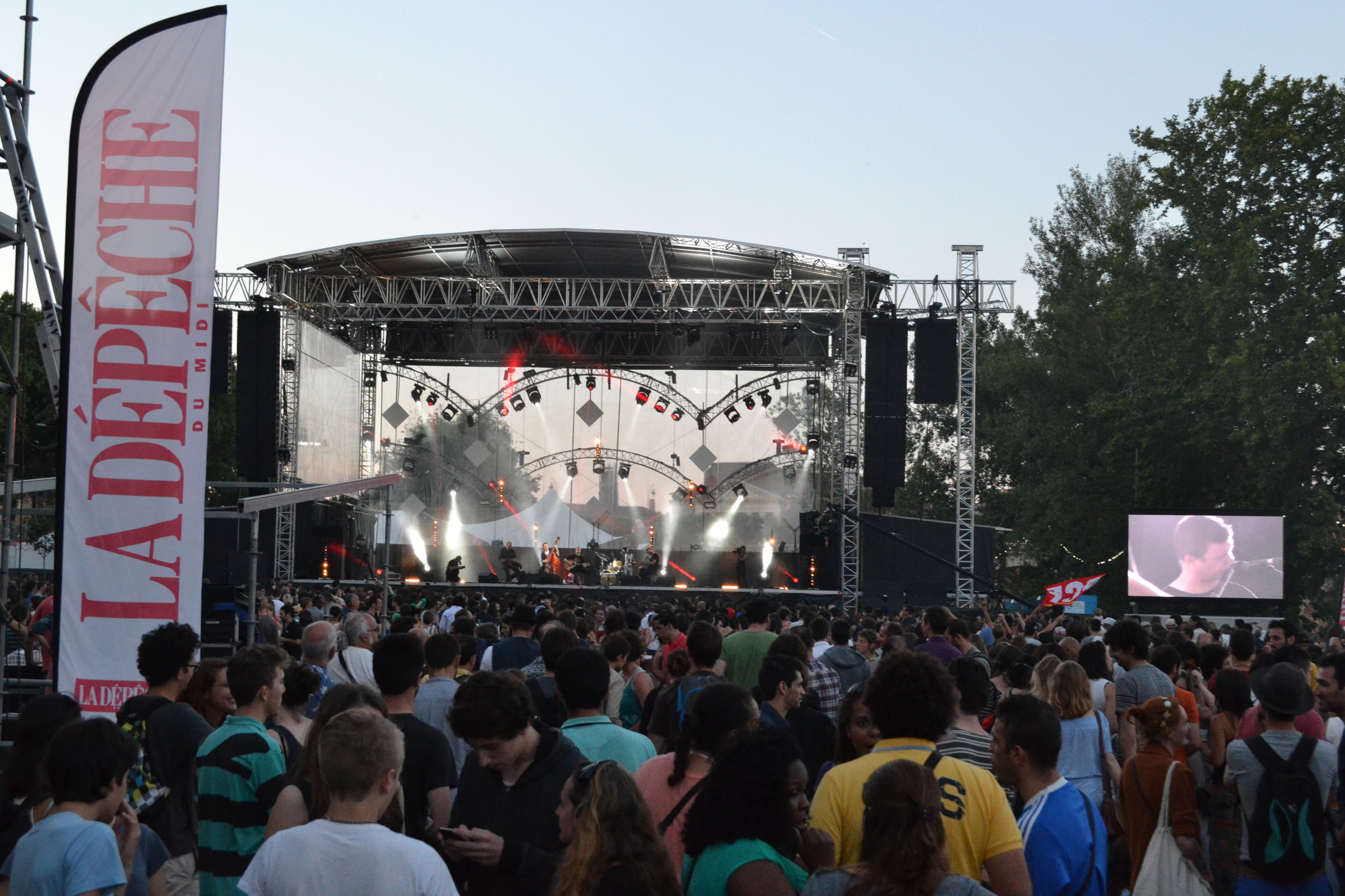 Rio Loco 2015 festival, in Toulouse.